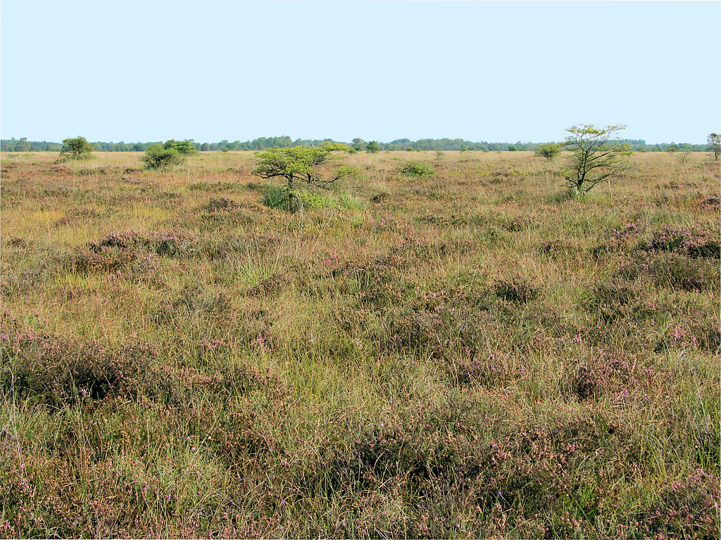 Nature Reserve Lengener Meer, East Frisia, Germany